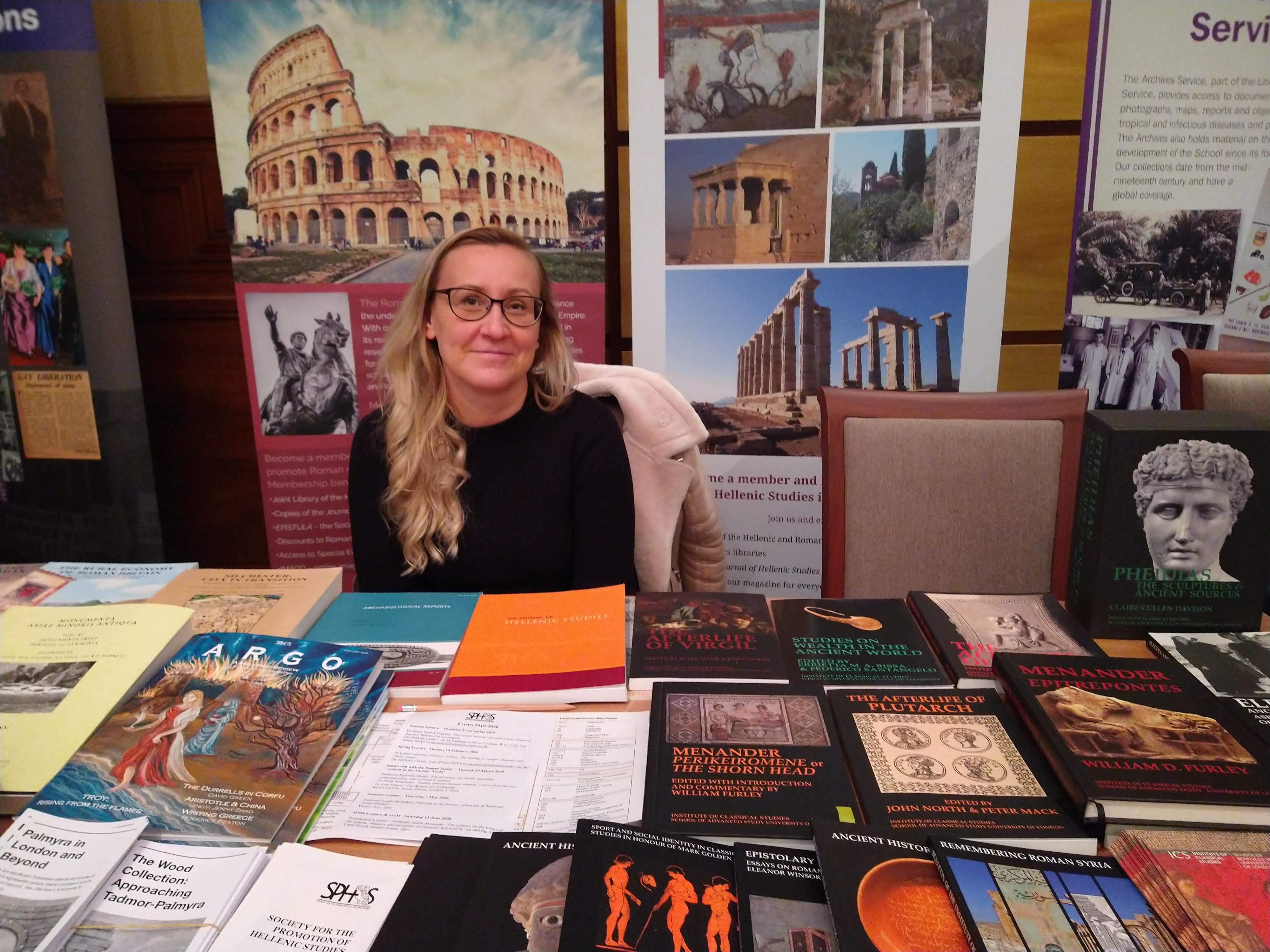 University of London School of Advanced Study History Day 2019